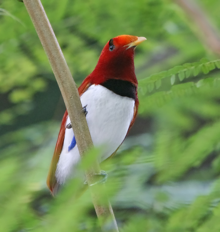 King Bird of paradise - male